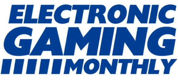 5th version of the logo of the videogame magazine EGM